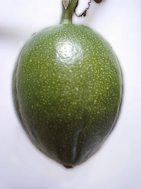 Trichosanthes kirilowii var japonica - fruit